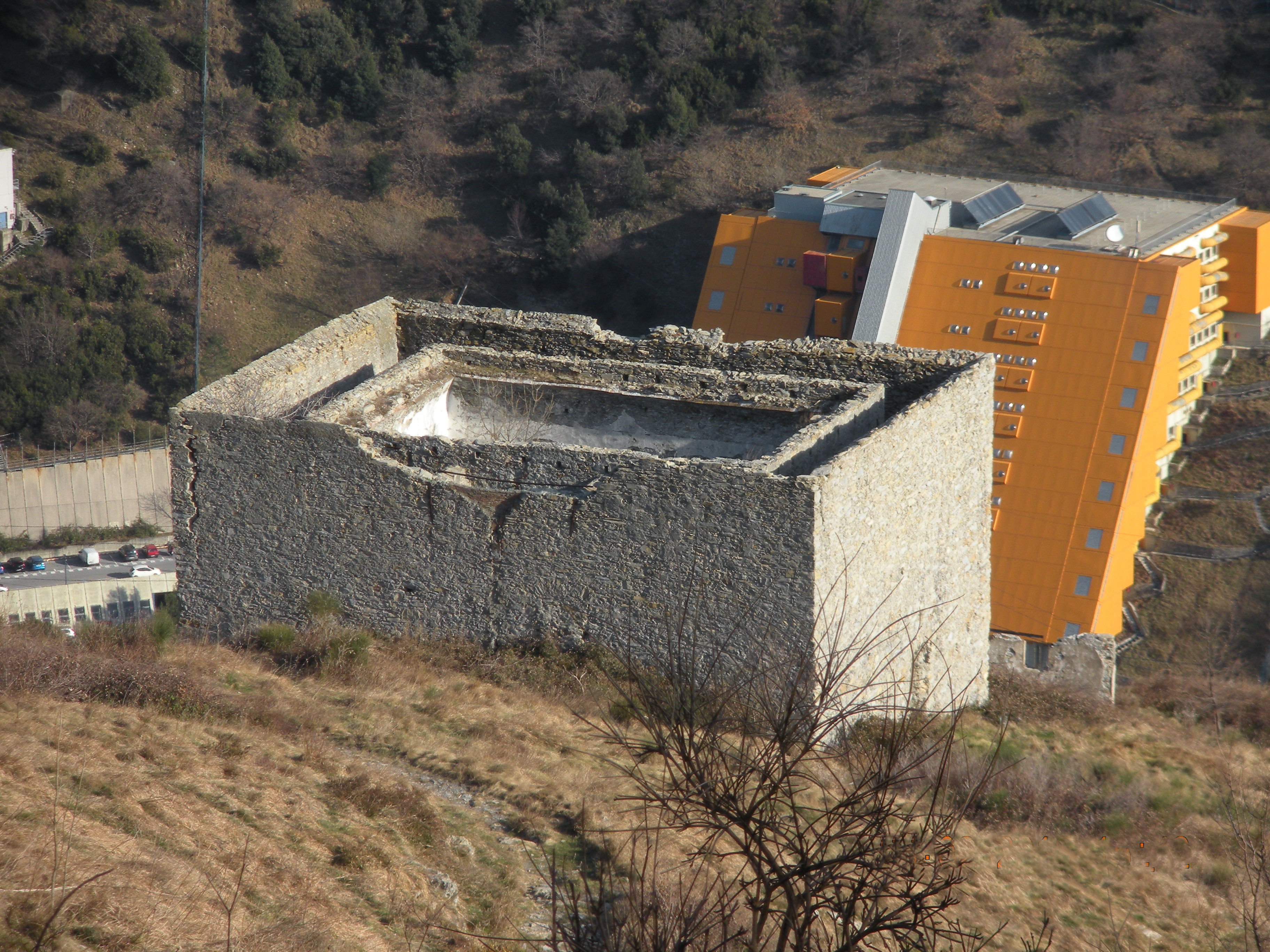 Genoa (Italy), ruins of an old gunpowder warehouse near Begato walls